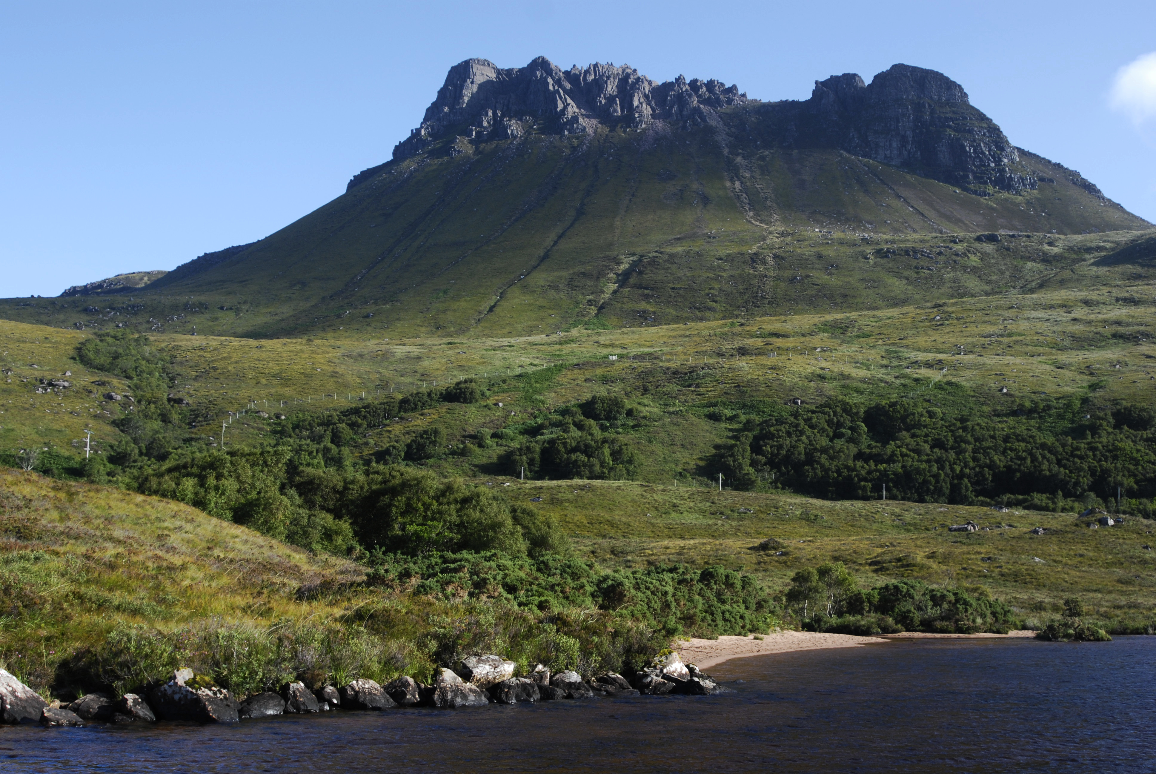 Stac Pollaidh from the south, showing Loch Lurgainn in the foreground